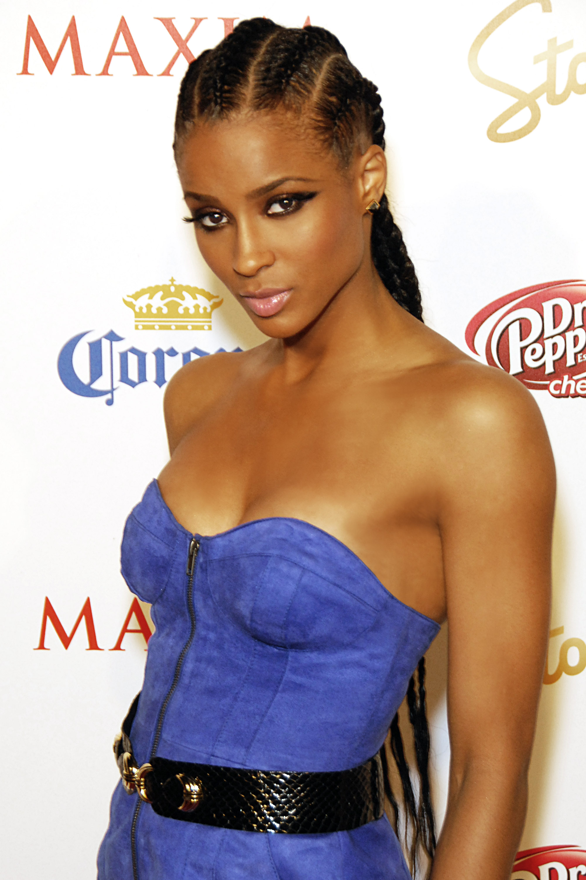 Ciara attending Maxim Magazine's 10th Annual Hot 100 Celebration, Santa Monica, CA on May 13, 2009 - Photo by Glenn Francis of